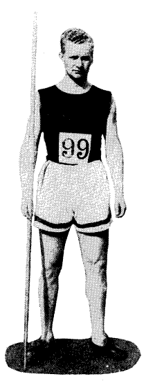 Swedish athlete Gunnar Lindström